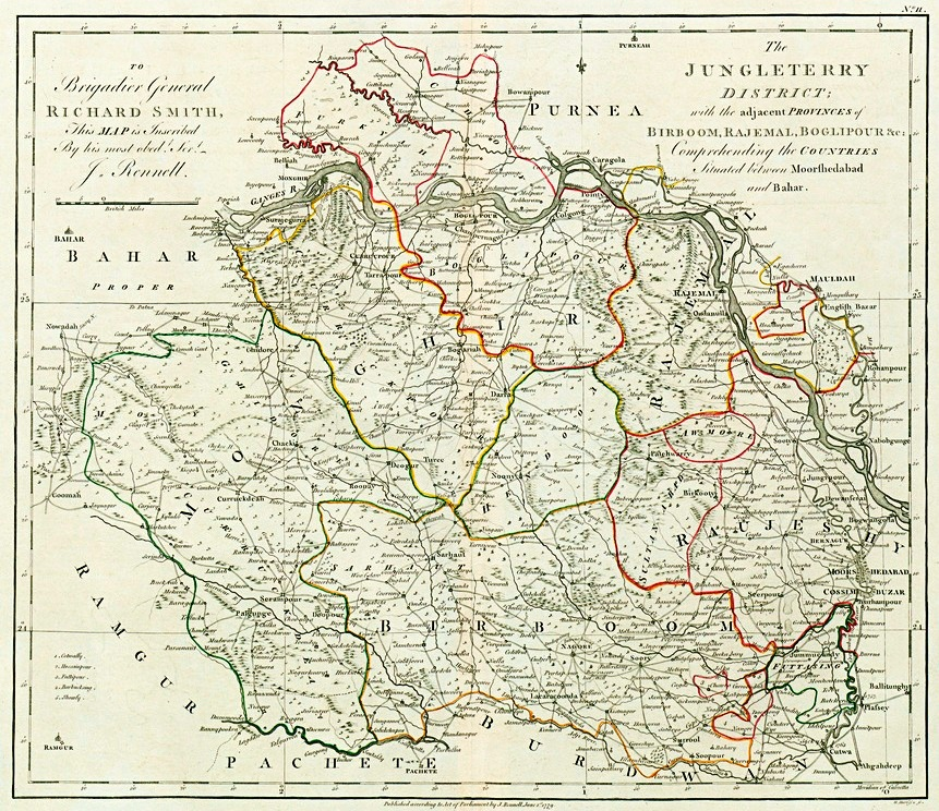 Map number two of James Rennell's 1779 Bengal Atlas “The Jungleterry District with the adjacent provinces of Birboom, Rayemal, Boglipour etc.,”